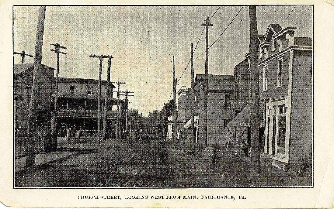 Early photo looking west from Main St. to Church St.